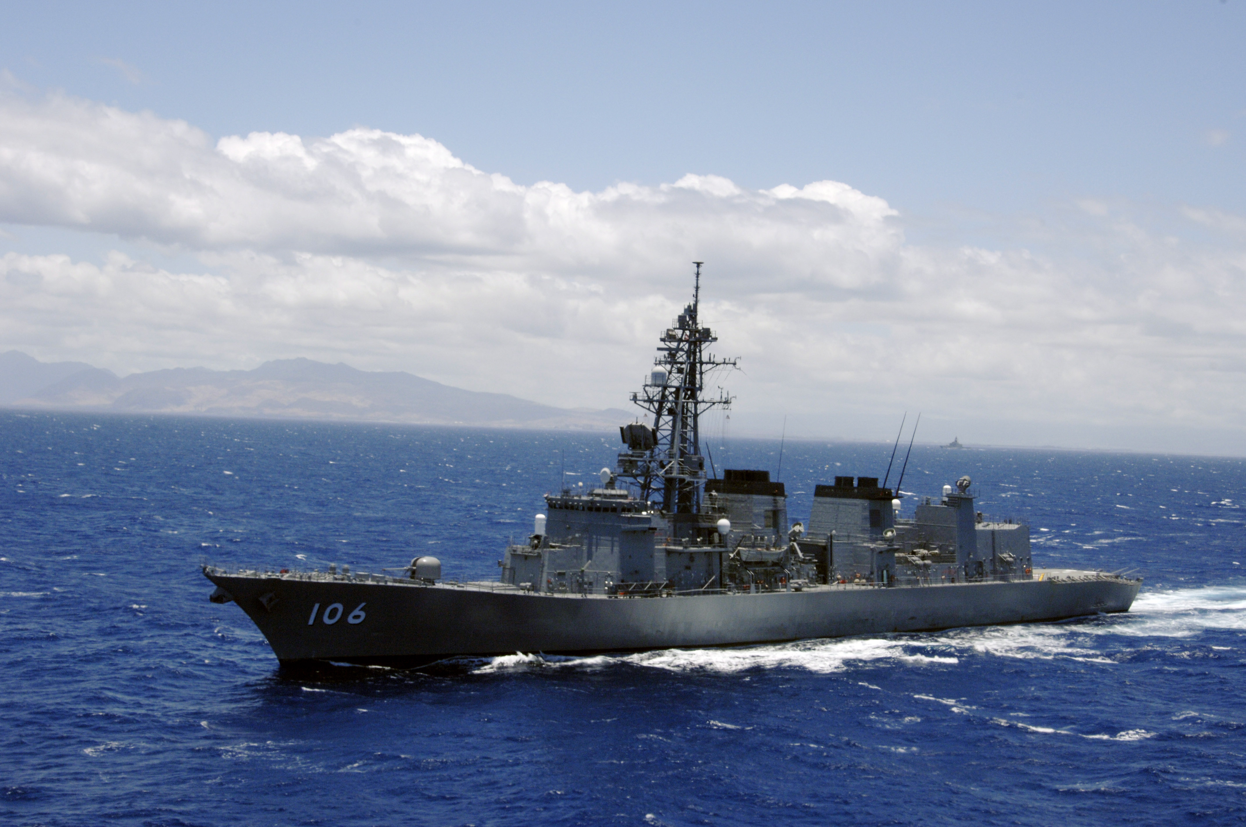 Pearl Harbor (July 5, 2006) — Japanese ship JDS Samidare (DD-106) departs from Pearl Harbor, Hawaii to participate in exercise Rim of the Pacific (RIMPAC). Eight nations are participating in RIMPAC, the world's largest biennial maritime exercise. Conducted in the waters off Hawaii, RIMPAC brings together military forces from Australia, Canada, Chile, Peru, Japan, the Republic of Korea, the United Kingdom and the United States.